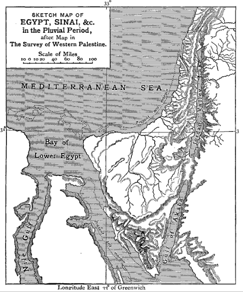 An illustration from the Encyclopaedia Biblica, a 1903 publication which is now in the public domain. Fig. 1 for article "Egypt". Map of Egypt during a Pluvial period (=high water/rain levels) of the Pleistocene.